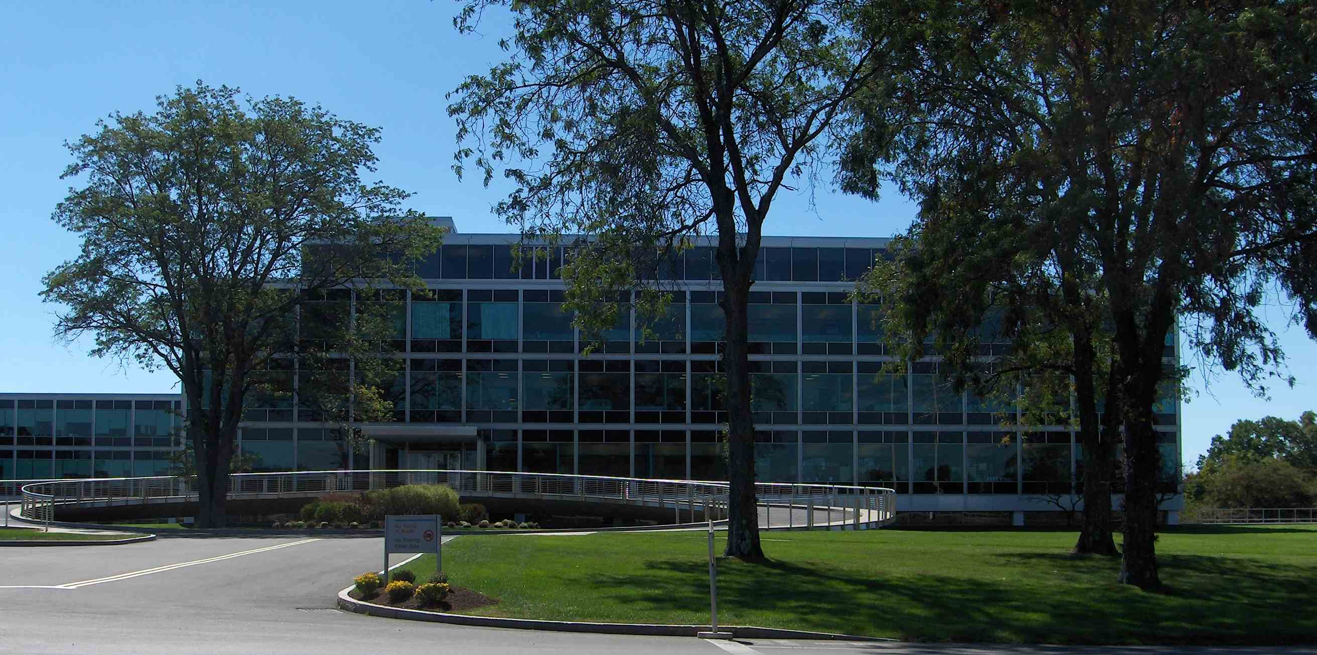 Connecticut General Life Insurance Company Headquarters building. originally the headquarters for the Connecticut General Life Insurance Company, it now serves as the Connecticut headquarters of CIGNA, a company formed by the merger of CG and INA (in Philadelphia. This is a National Register of Historic Places building. )